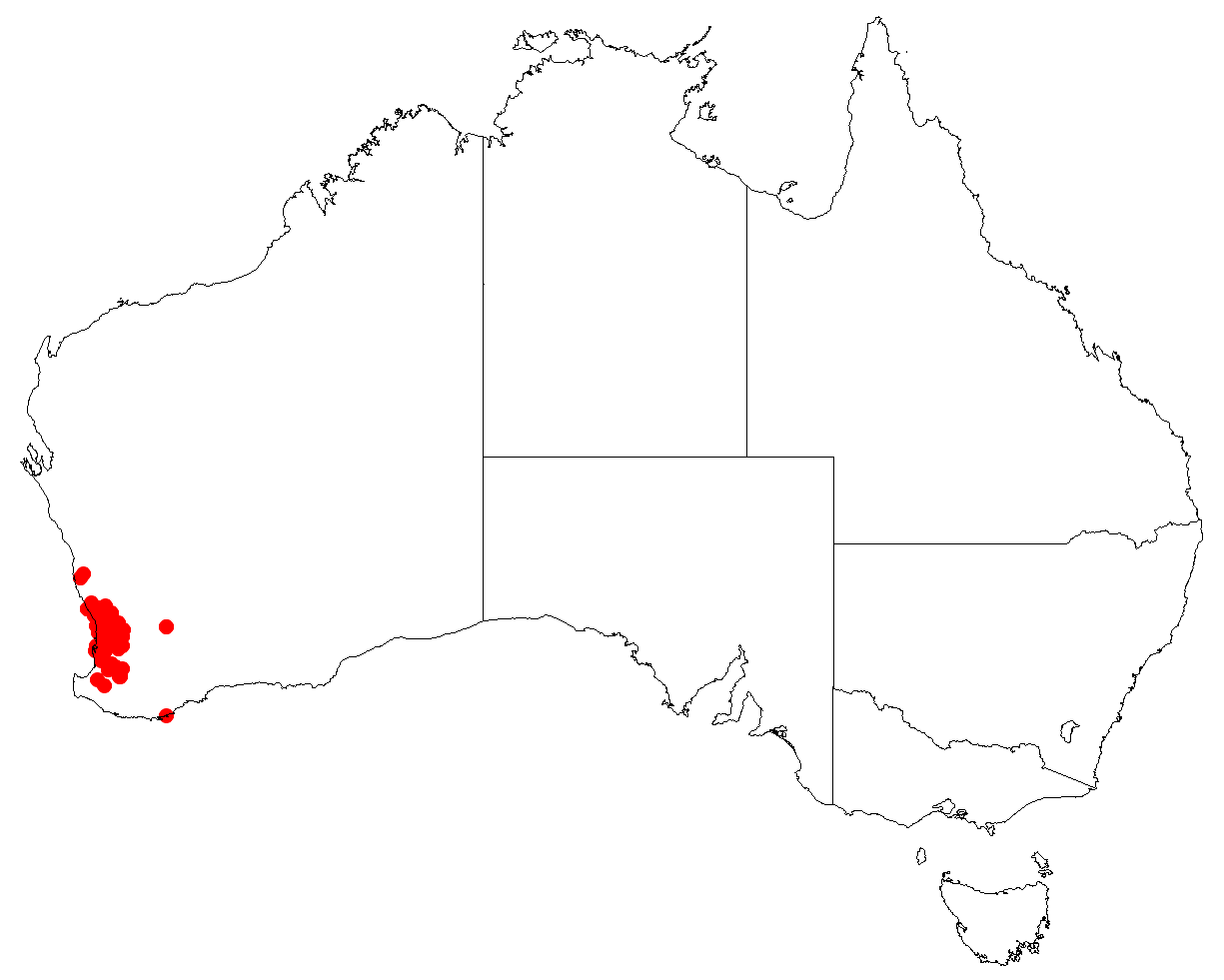 Billardiera fraseri occurrence data from Australasian Virtual Herbarium downloaded 28 Junem 2018